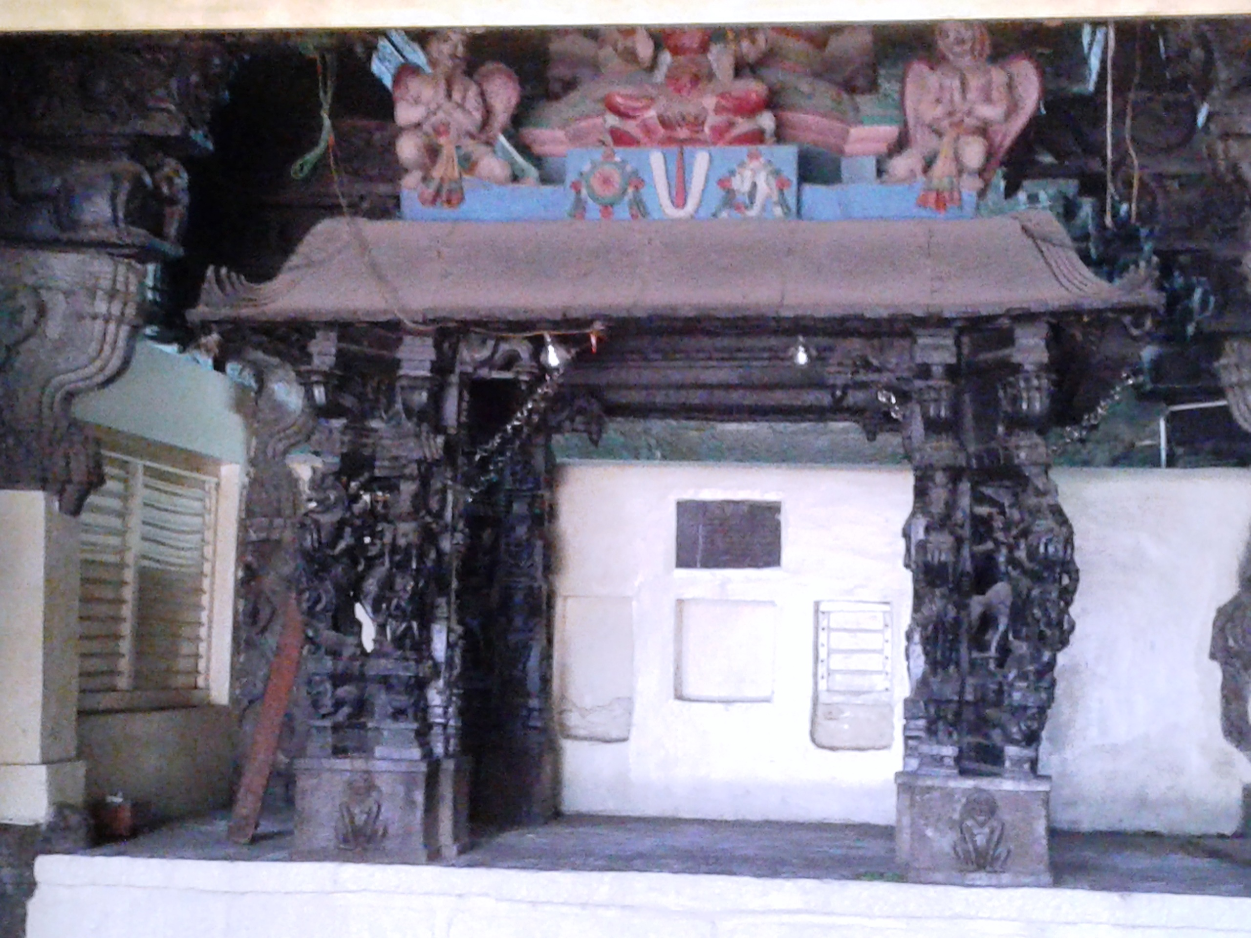 Veeraraghava Perumal Temple